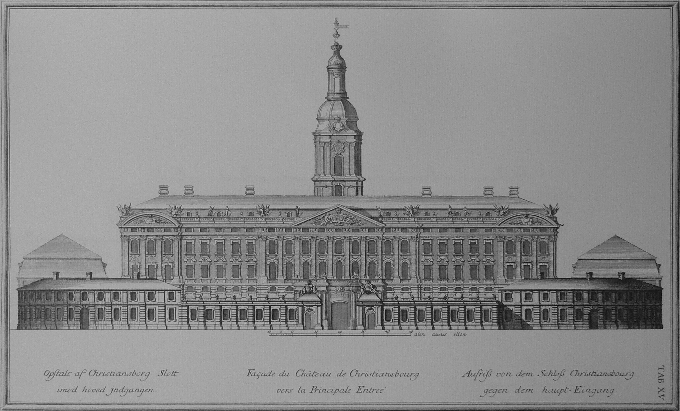 Elevation of Christiansborg Palace as seen towards the main entrance